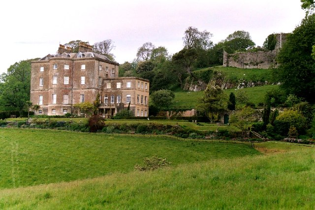 Penrice Castle, Gower, Sth. Wales. This picture shows the remains of the norman castle, on the right, and the 18th century house on the left, which was built by the land owner at the time, Thomas Mansel Talbot.